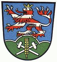 Coat of Arms of the district Kassel (Hesse, Germany) from April 2, 1952 untill May 9, 1975.